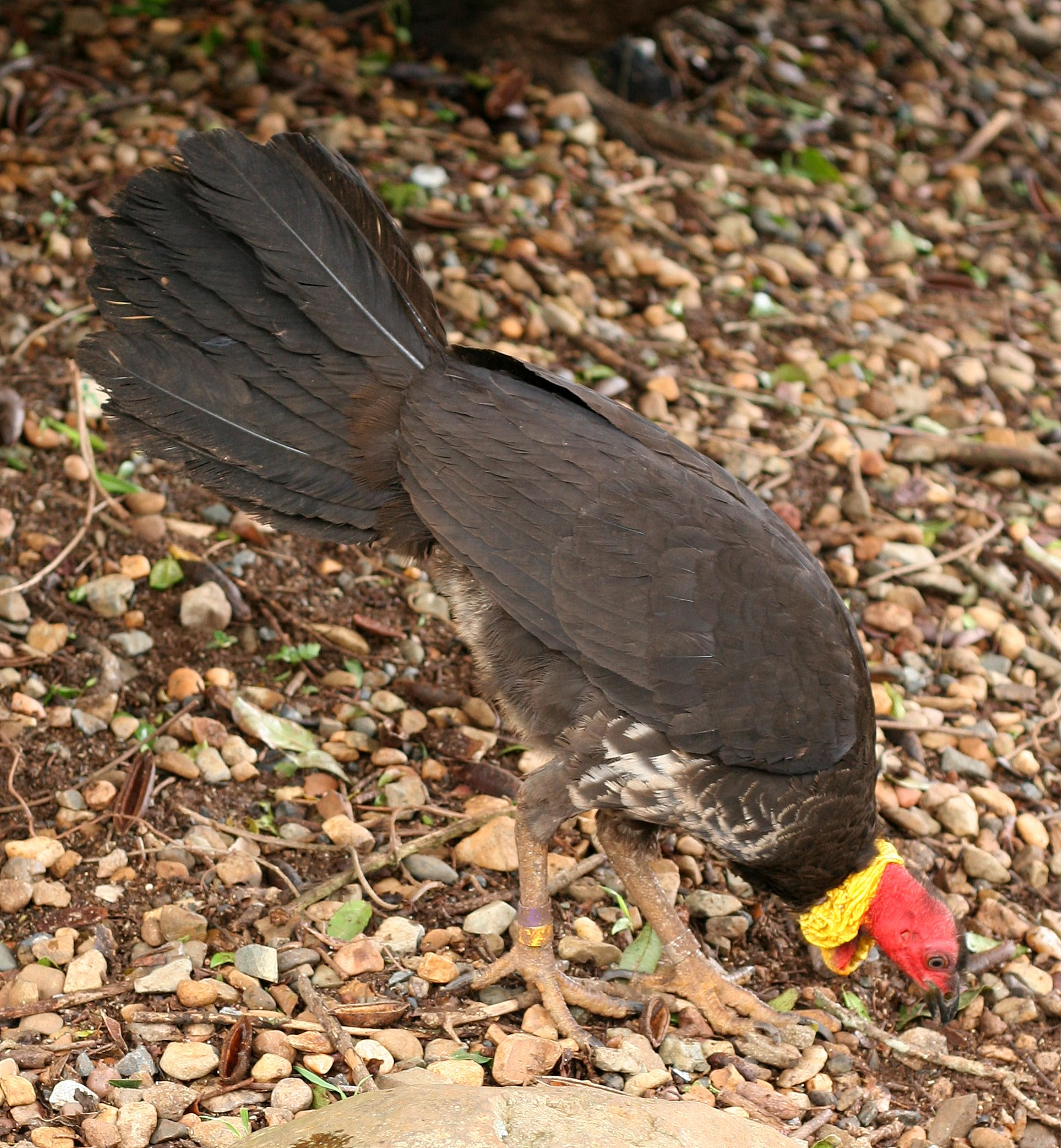 Australian Brush-turkey, Alectura lathami; wild bird, O'Reillys Guest House, Qld, Australia